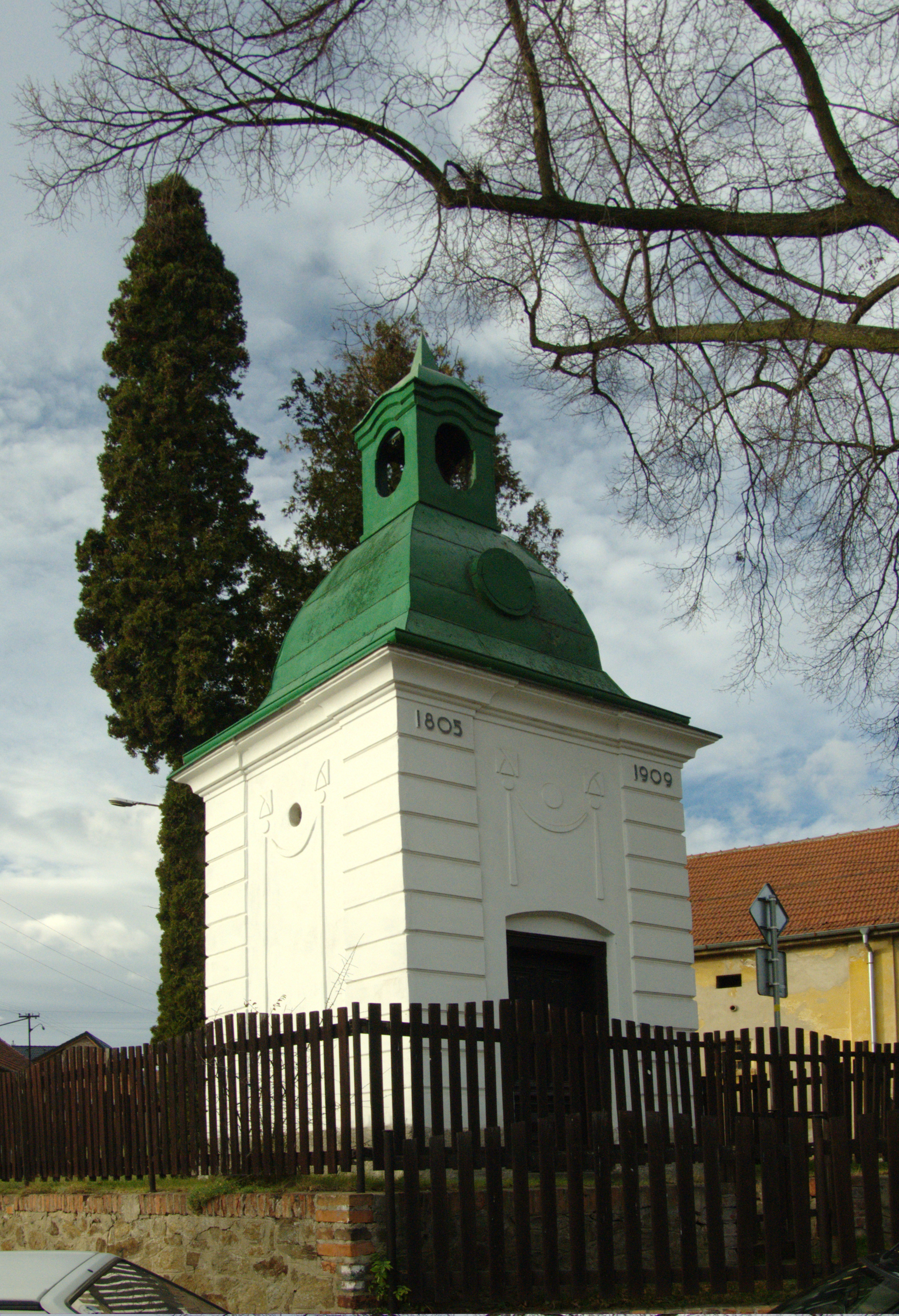 A chapel in the town in Chotutice, Central Bohemian Region, CZ This photograph was taken within the scope of the third year of the 'Czech Municipalities Photographs' grant.